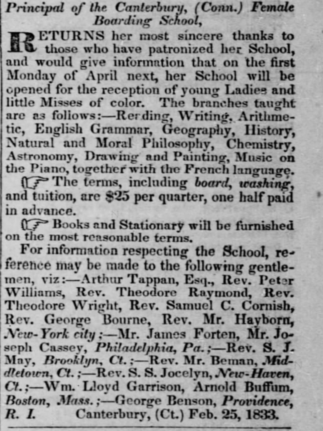 via (subscription required)